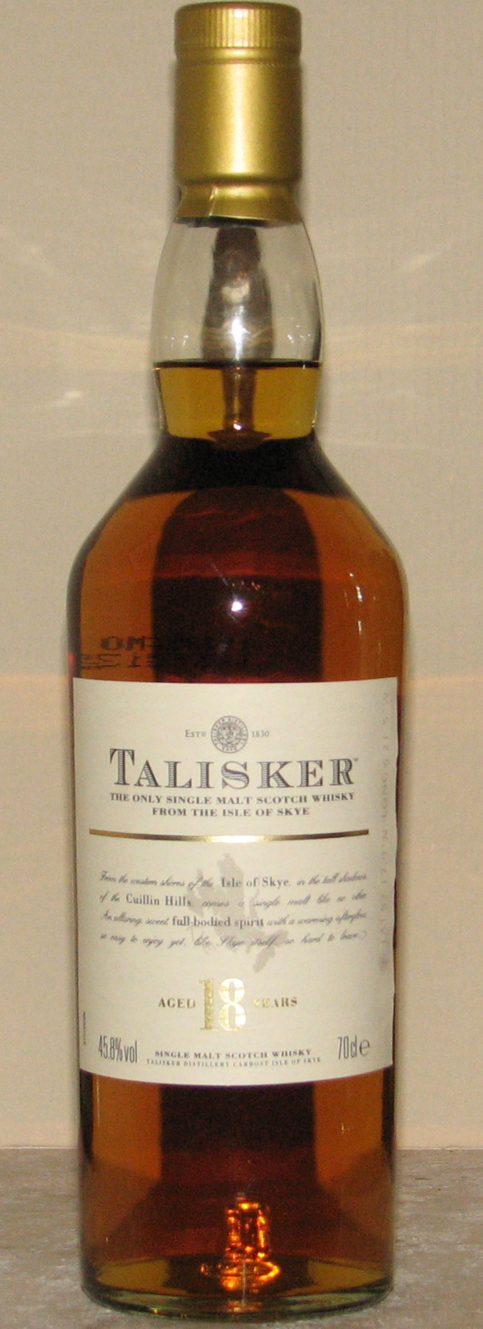 Talisker Isle of Skye Single Malt Whisky aged 18 years